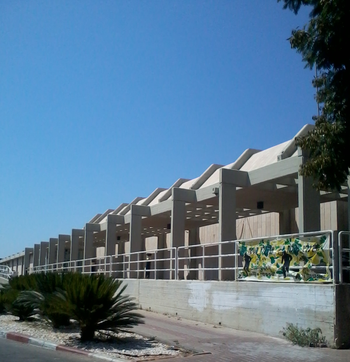 National Olympic Shooting Center - Herzeliya, Israel